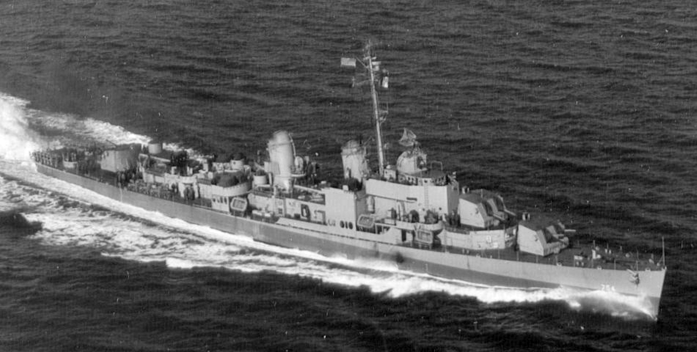 The U.S. Navy destroyer USS Frank E. Evans (DD-754) in 1945.